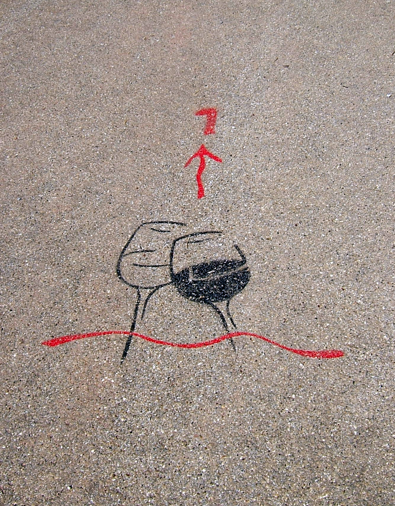 Marker on Road near Y-Burg, a ruin in Germany